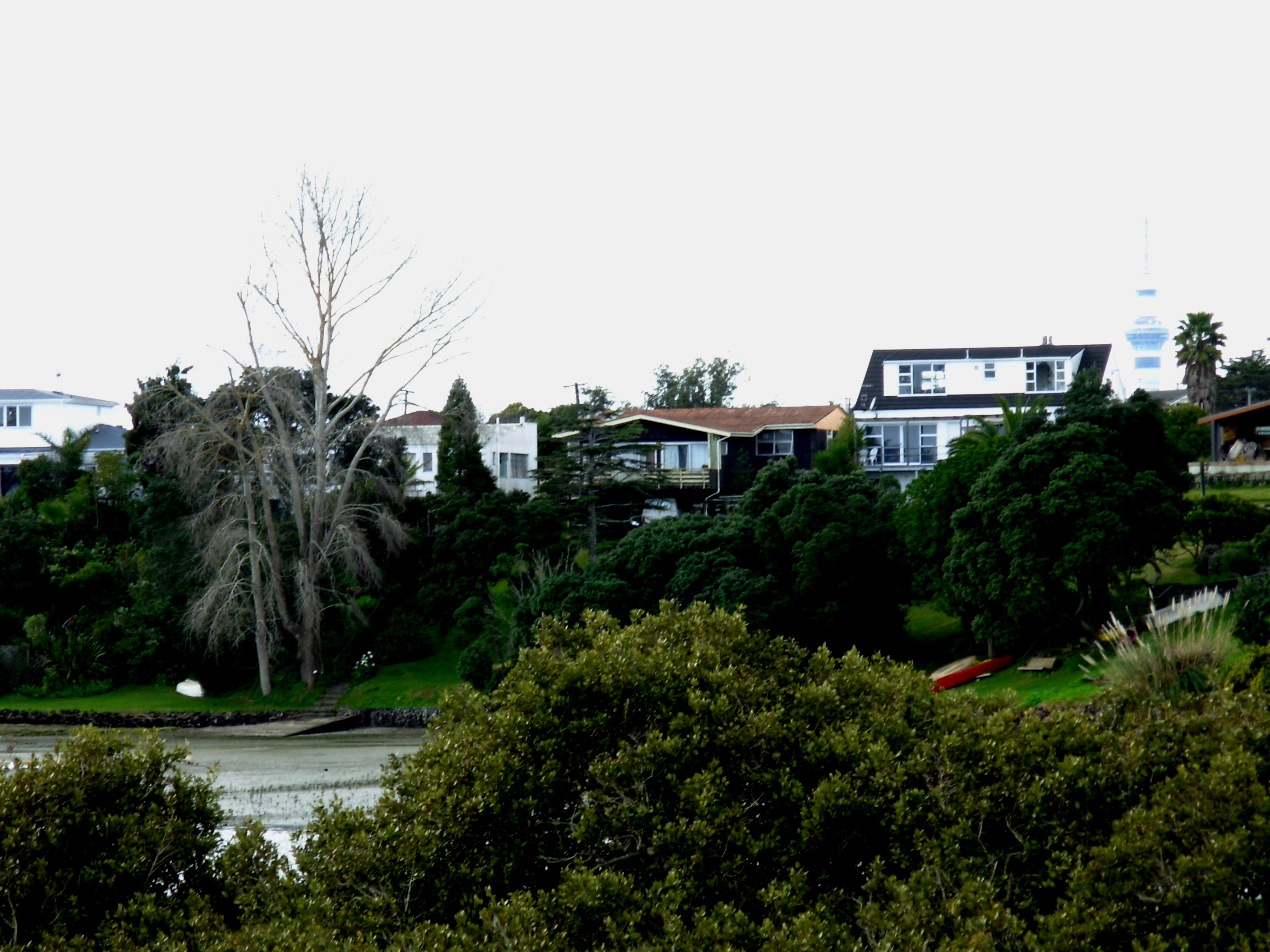 Westmere, a suburb of Auckland New Zealand, viewed from Meola Reef to the west